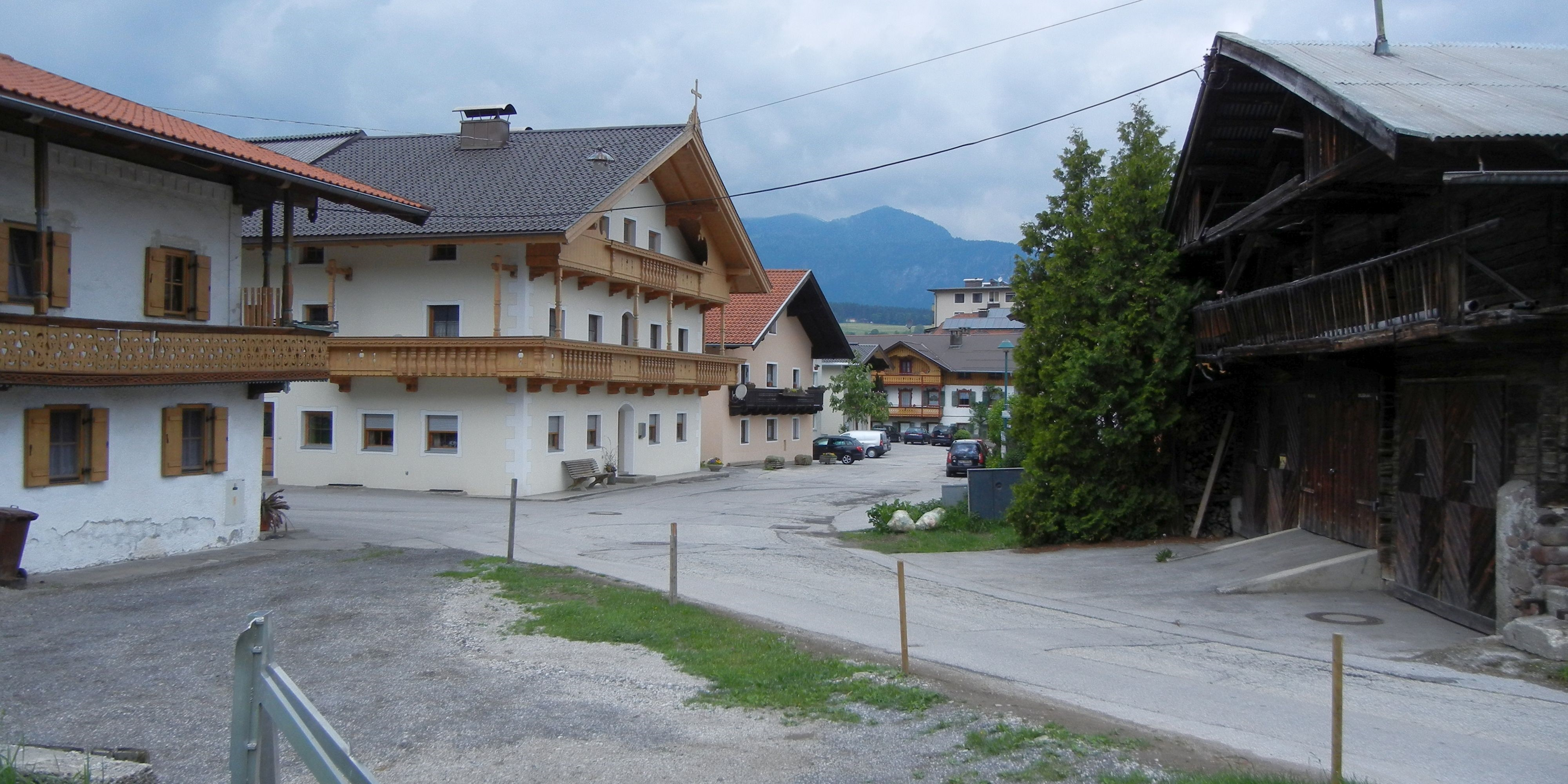 The Kanzler-Biener-Street in Wörgl, Tyrol, Austria, with its hisorical farms.